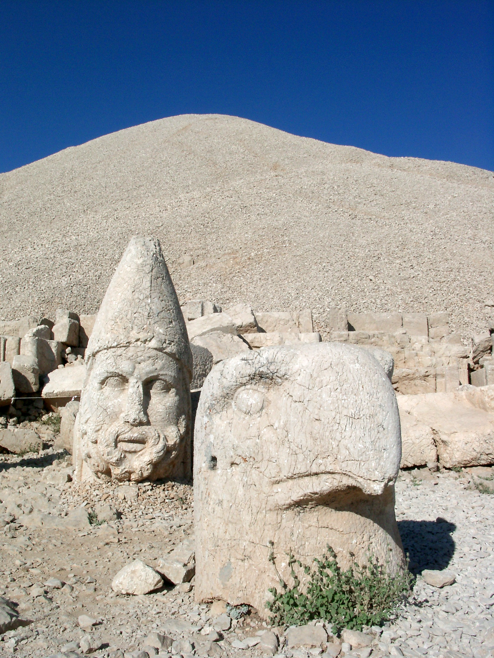 View to the tomb-sanctuary of Mount Nemrut with heads of huge statues in front.